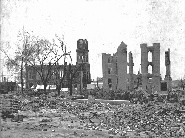 Aftermath of the 1901 Jacksonville fire